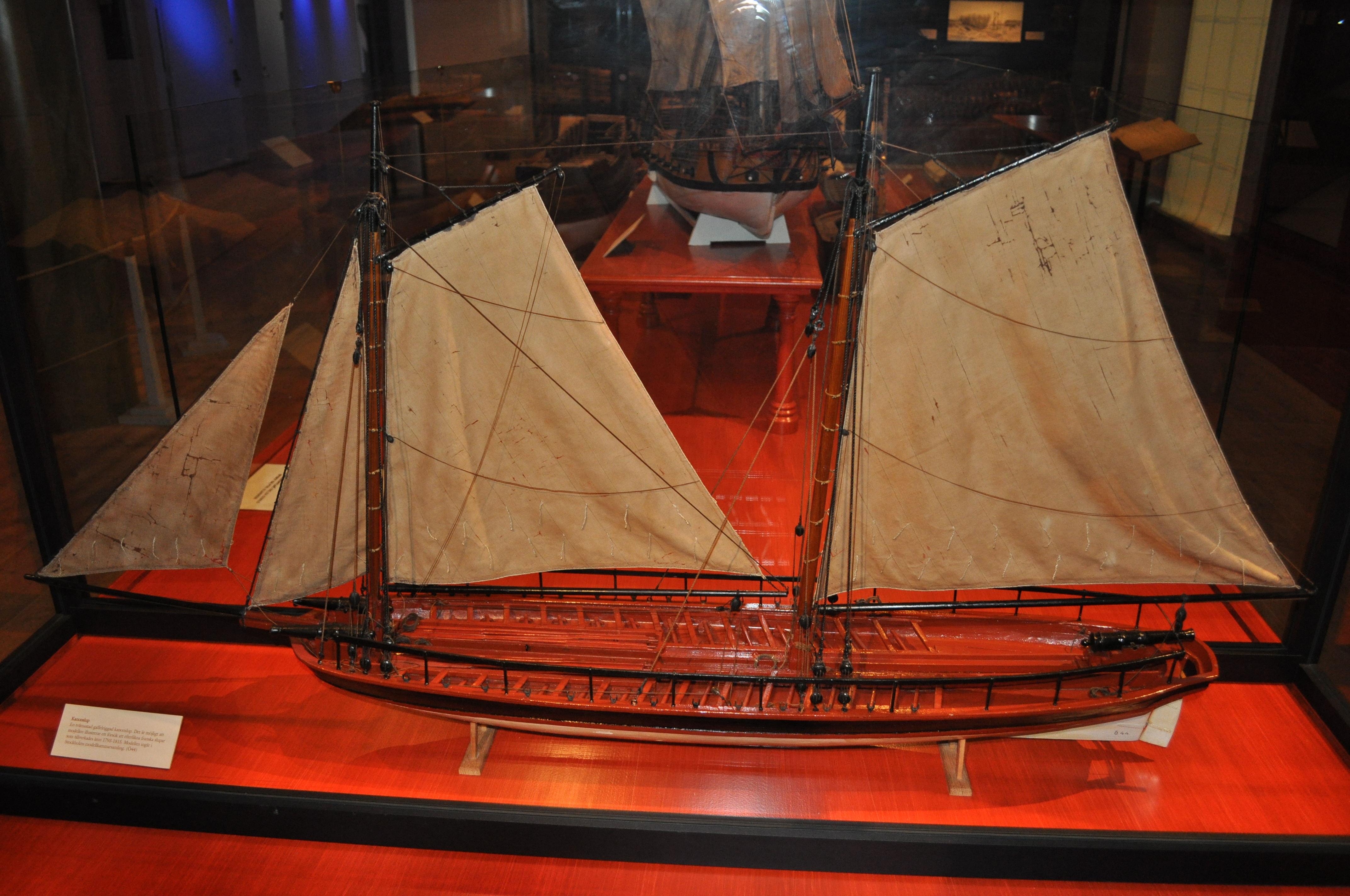 Cannon-sloop after after French model, build 1793-1815